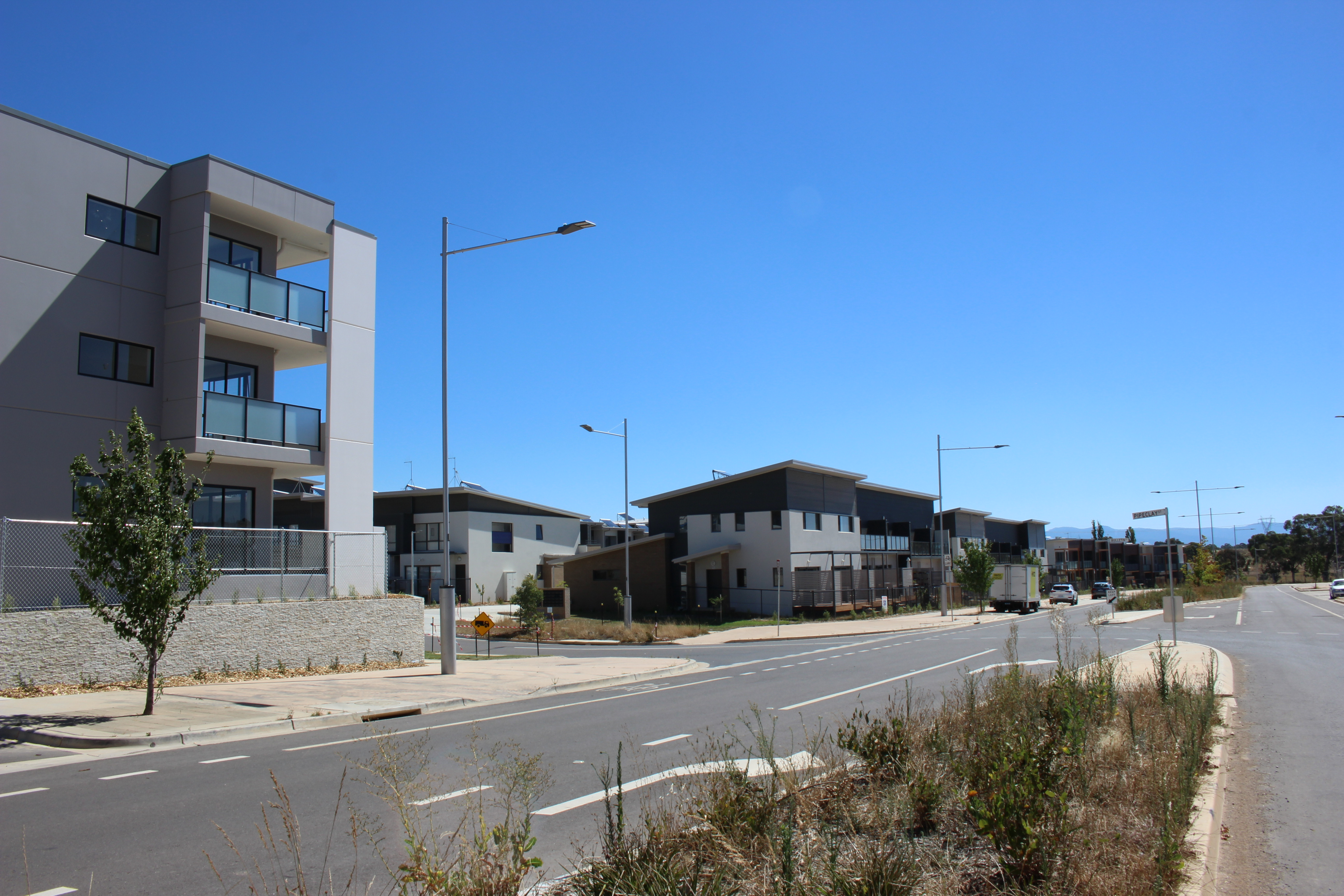 Early development in Lawson, ACT